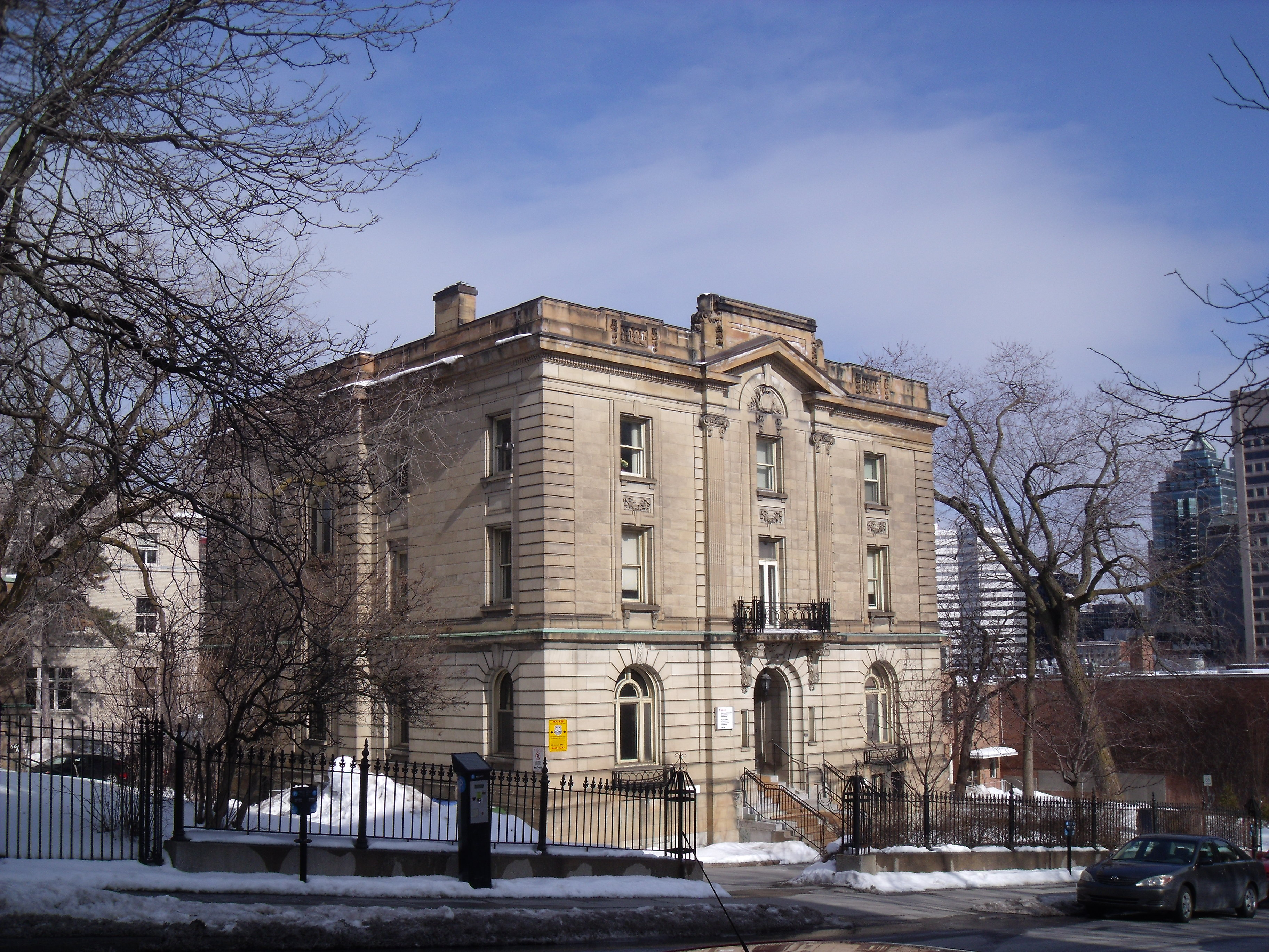 Ross [J.K.L.] House (Institute and Centre of Air and Space Law, McGill University)